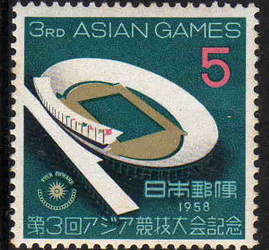 3rd asia games